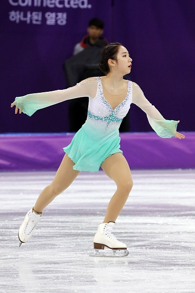 CHOI Dabin KOR – 7th Place